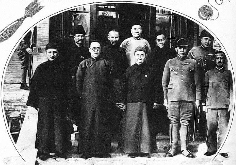 ROC government officials (Mongol United Autonomous Government)